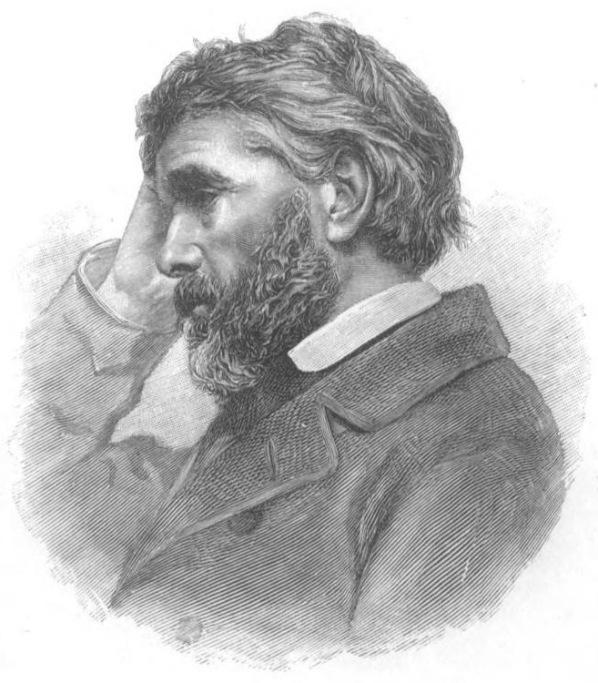 A print of Thomas Carlyle in 1865, taken from a photo by Elliot & Fry.